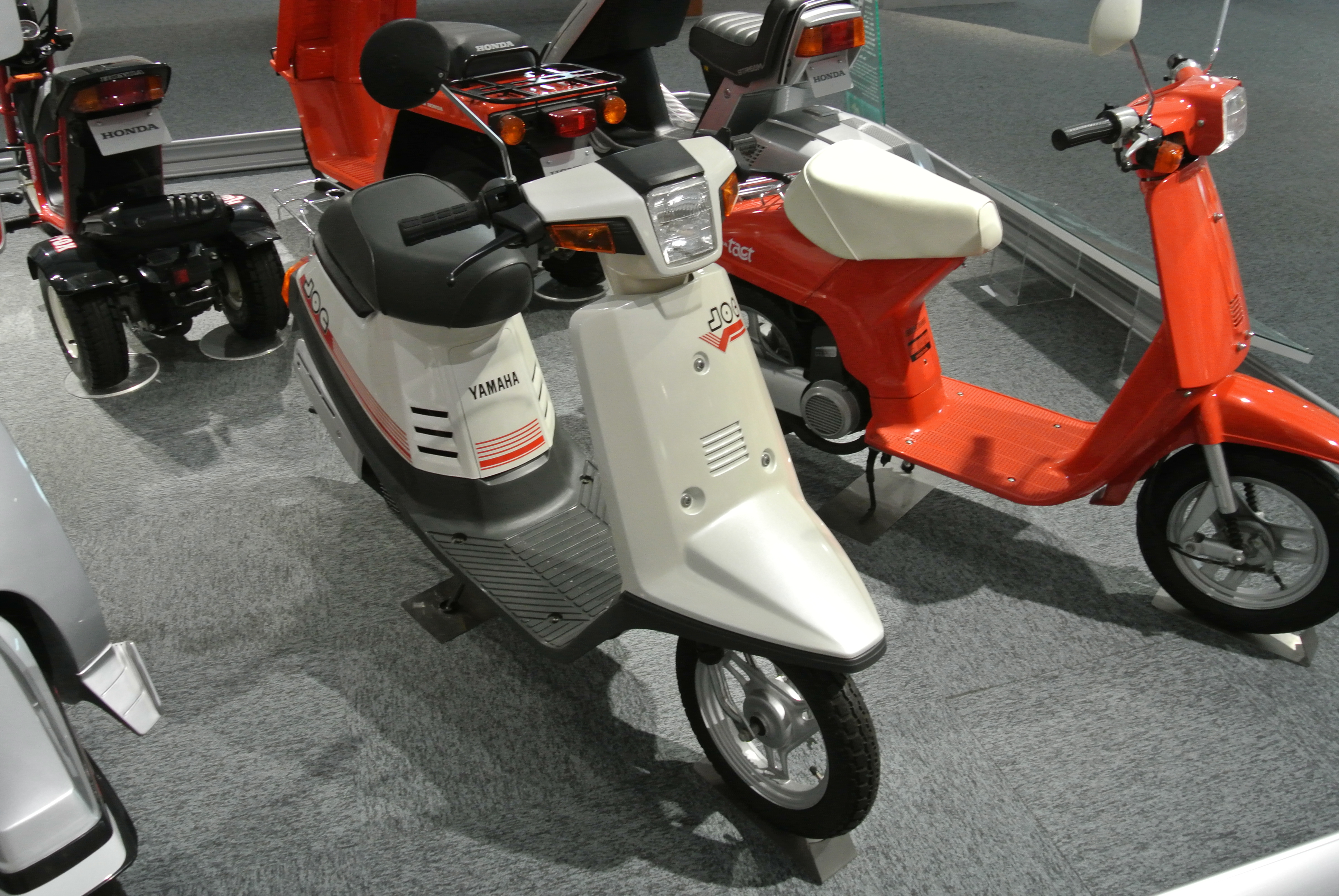 Ymaha Scooter JOG in the Honda Collection Hall.